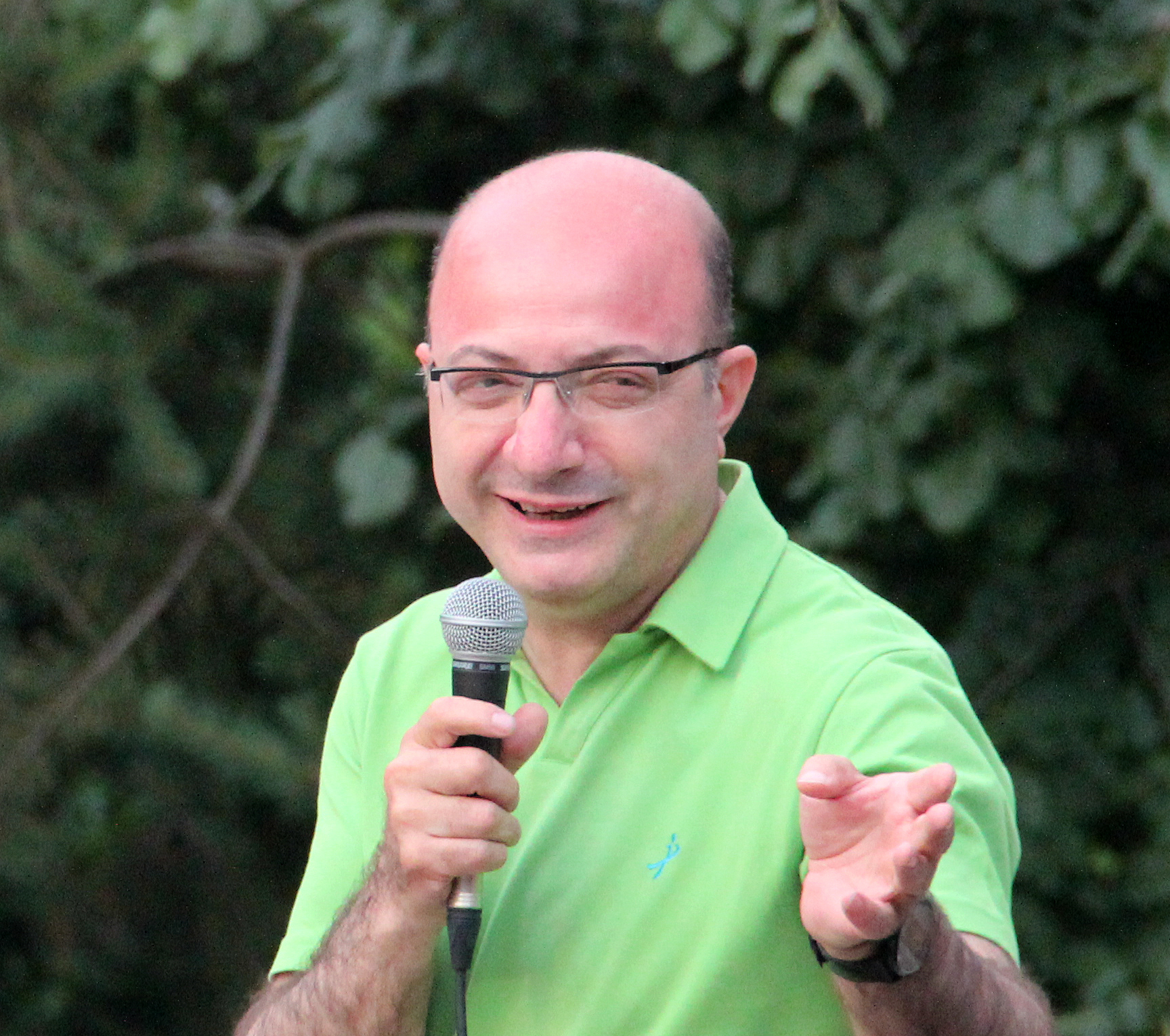 Ilhan Cihaner, Turkish law expert and MP for CHP party, during an electoral meeting in Besiktas, Istanbul.